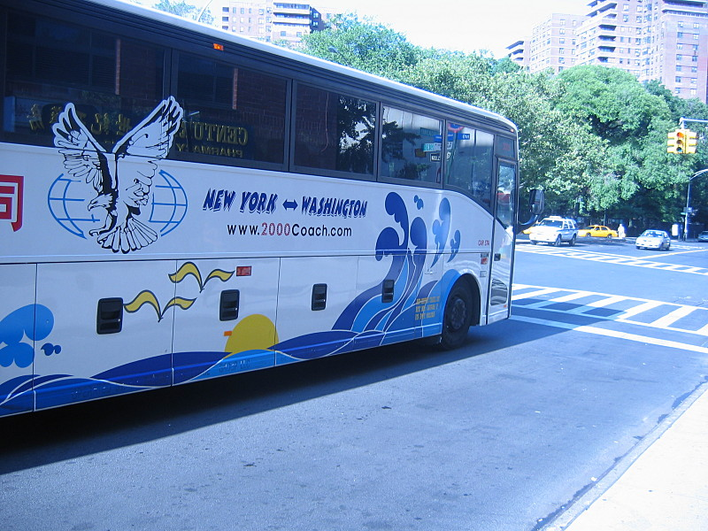 A Chinatown bus (2000 Coach/New Century Travel) shortly after depositing its passengers in NYC. August 2004. © 2004 Joseph Barillari